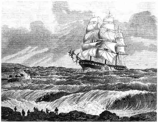 Creator unknown. Black and white image of the wreck of the Loch Leven, still under full sail, as it appeared in the illustrated Sydney News on 25th November, 1871. National Library of Australia.